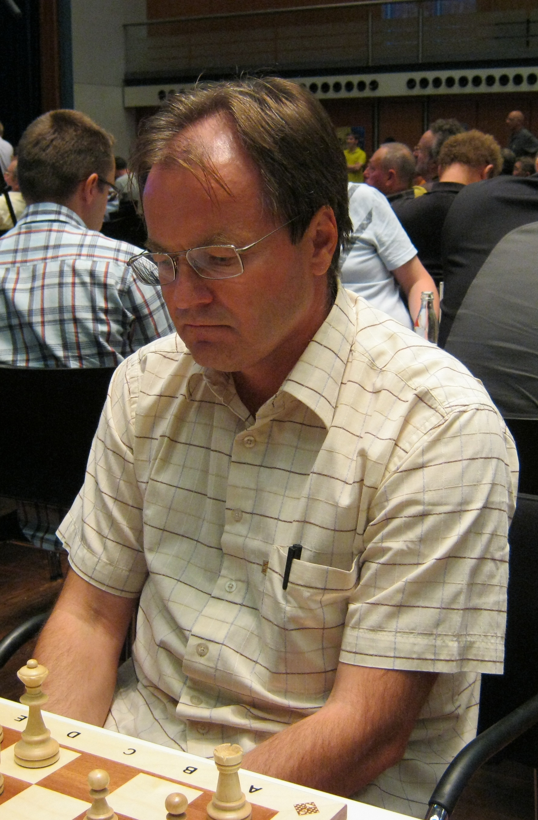 Sergey Smagin, chess grandmaster from Russia, at Mainz Chess Classic